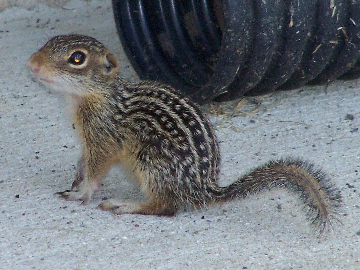 Thirteen lined ground squirrel